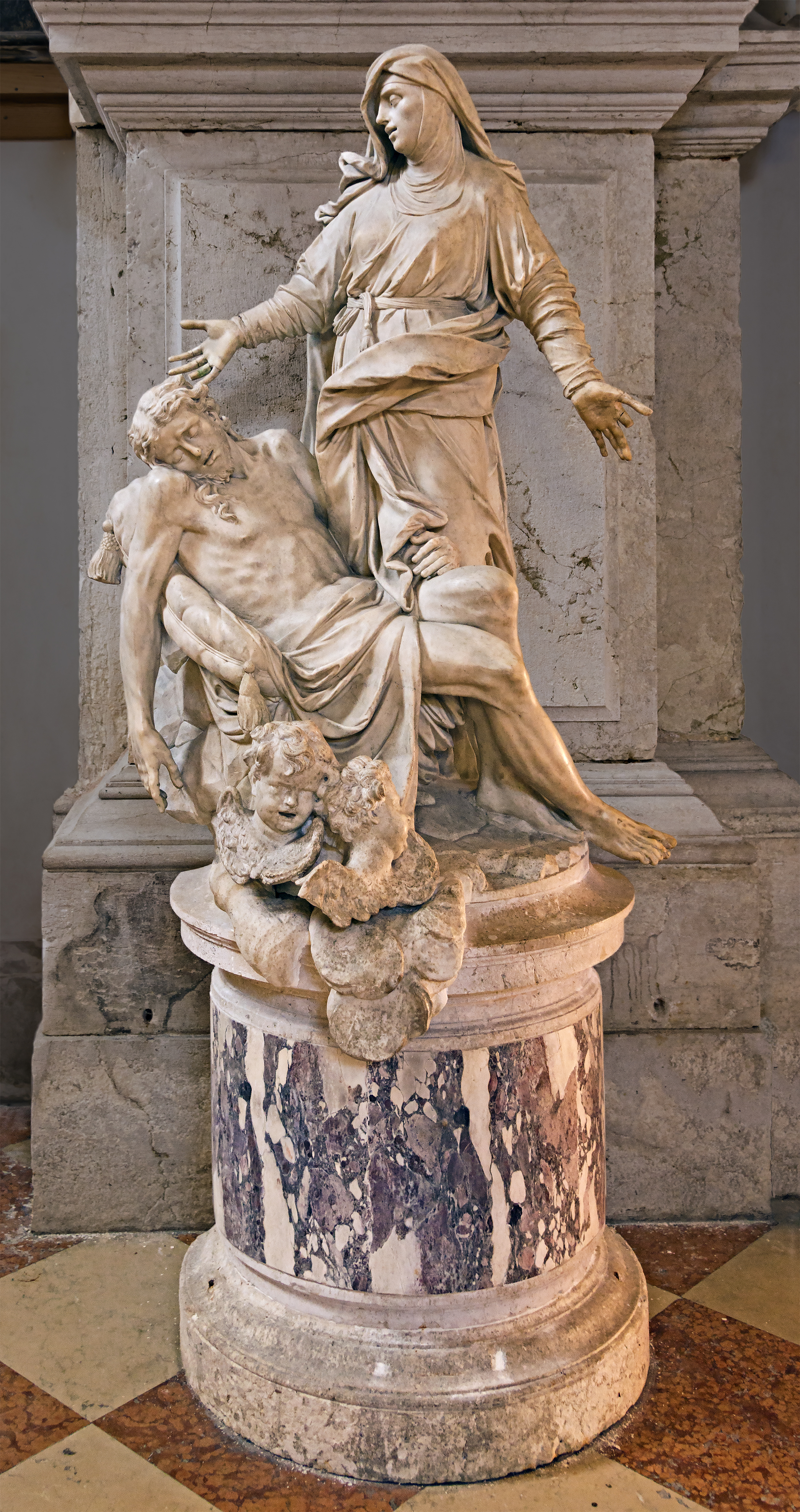 San Moisè in Venice. The Pietà by Antonio Corradini.